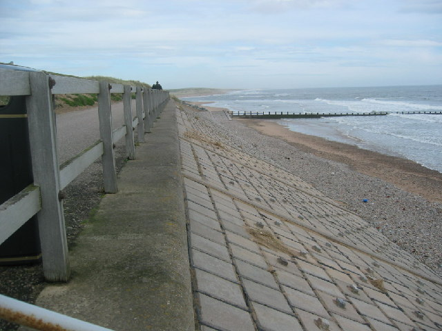 Sea wall, North end of the Beach Boulevard, Aberdeen. Evidence of different measure of coastal management